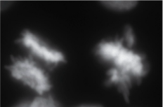 Microscopy image showing the chromosomes stained with DAPI of two mitotic cells, one in anaphase (left) and one in metaphase (right), with most chromosomes in the metaphase plate and some unaligned chromosomes.